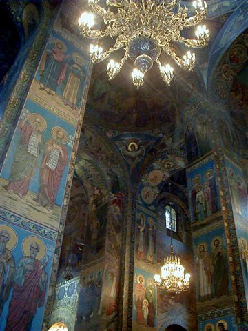 Inside of the dome of the Church of the Saviour on the Blood